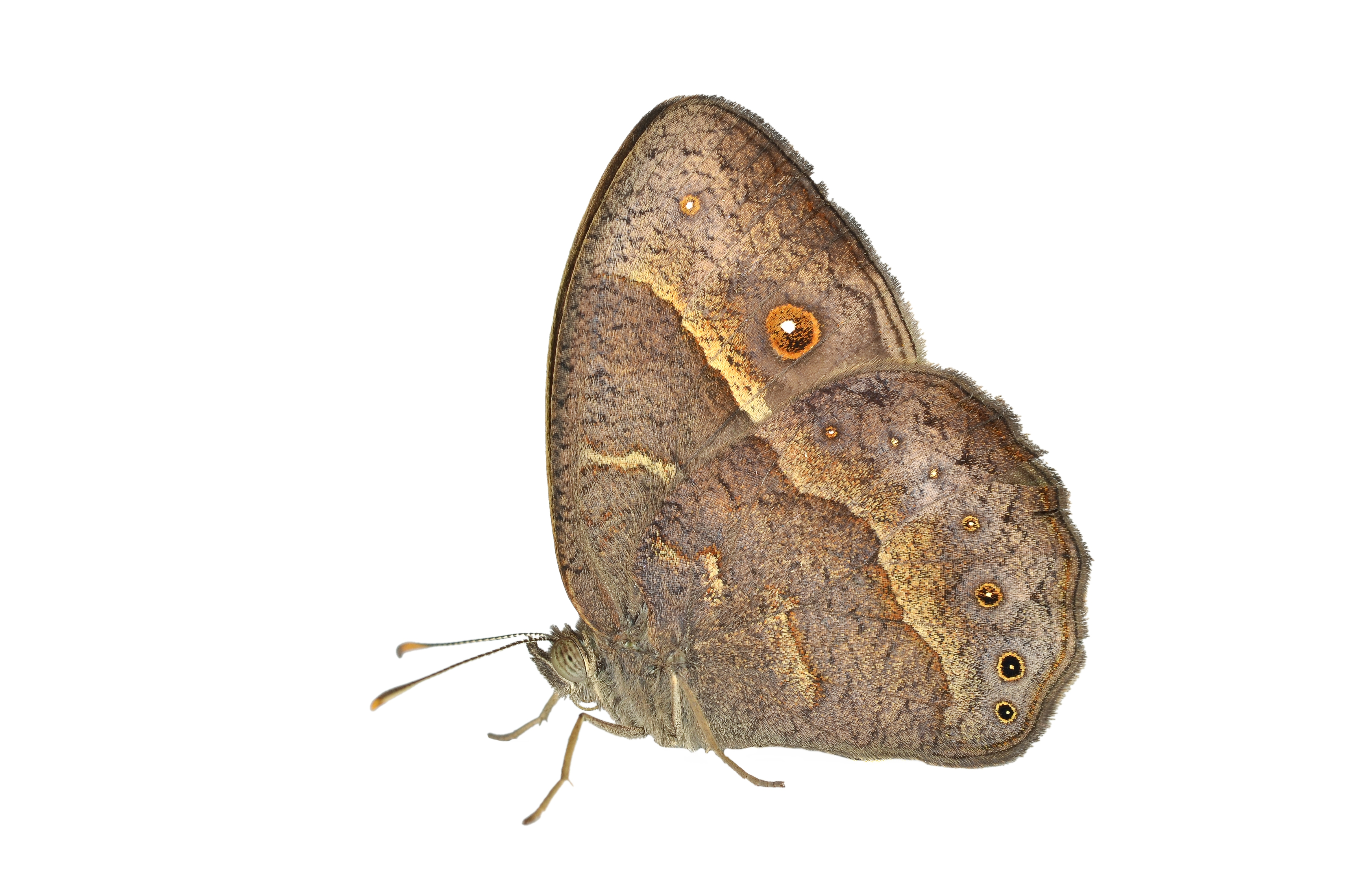 Female Bicyclus anynana (Lepidoptera, Nymphalidae), dry season form from a lab strain (Louvain-La-Neuve, Belgium)